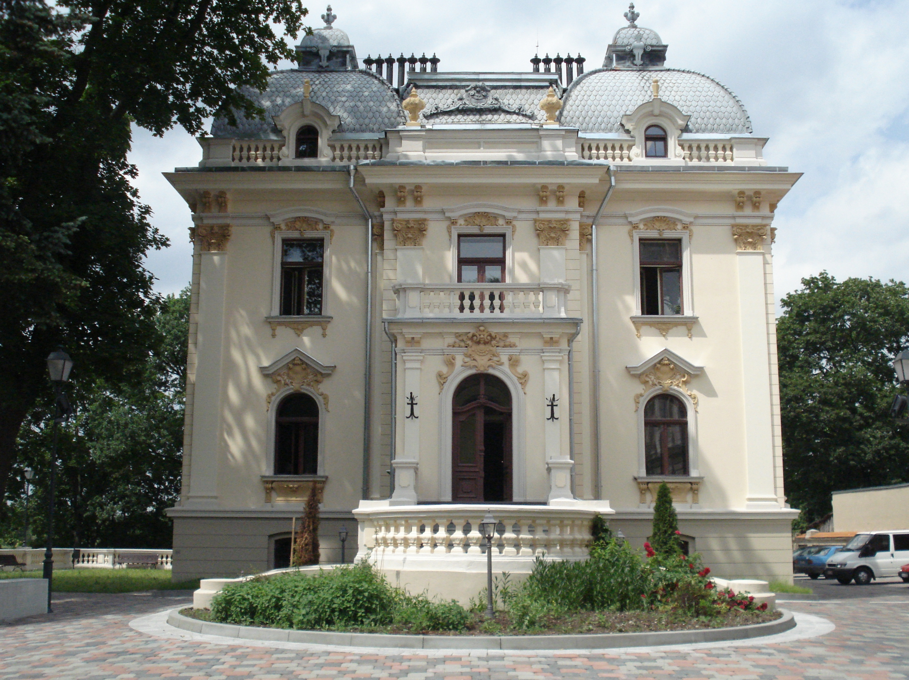 The Institute of Lithuanian Literature and Folklore in the palace of the Vileišis family (designed by August Klein, erected by Lithuanian engineer Petras Vileišisin in 1904-1906). Vilnius, Antakalnio g. 6